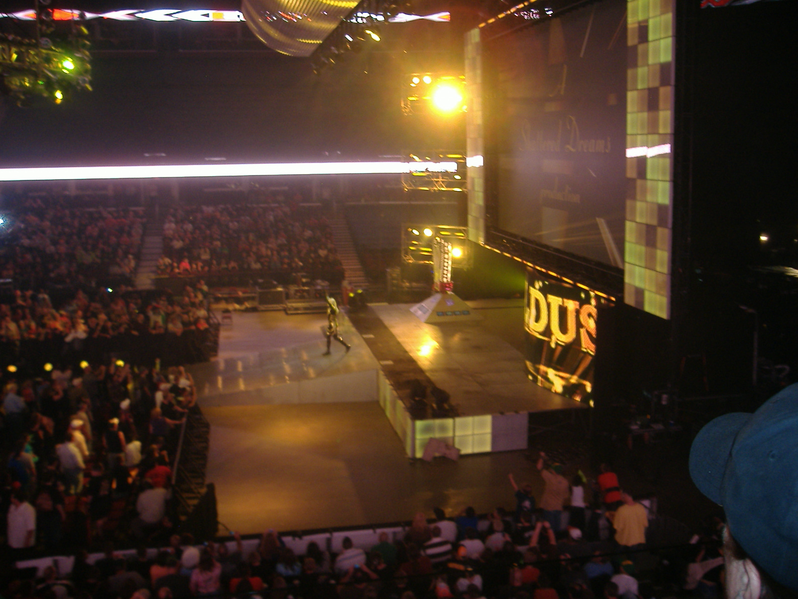 Goldust makes his entrance From September 1st, 2009 Smackdown, ECW, and Superstars